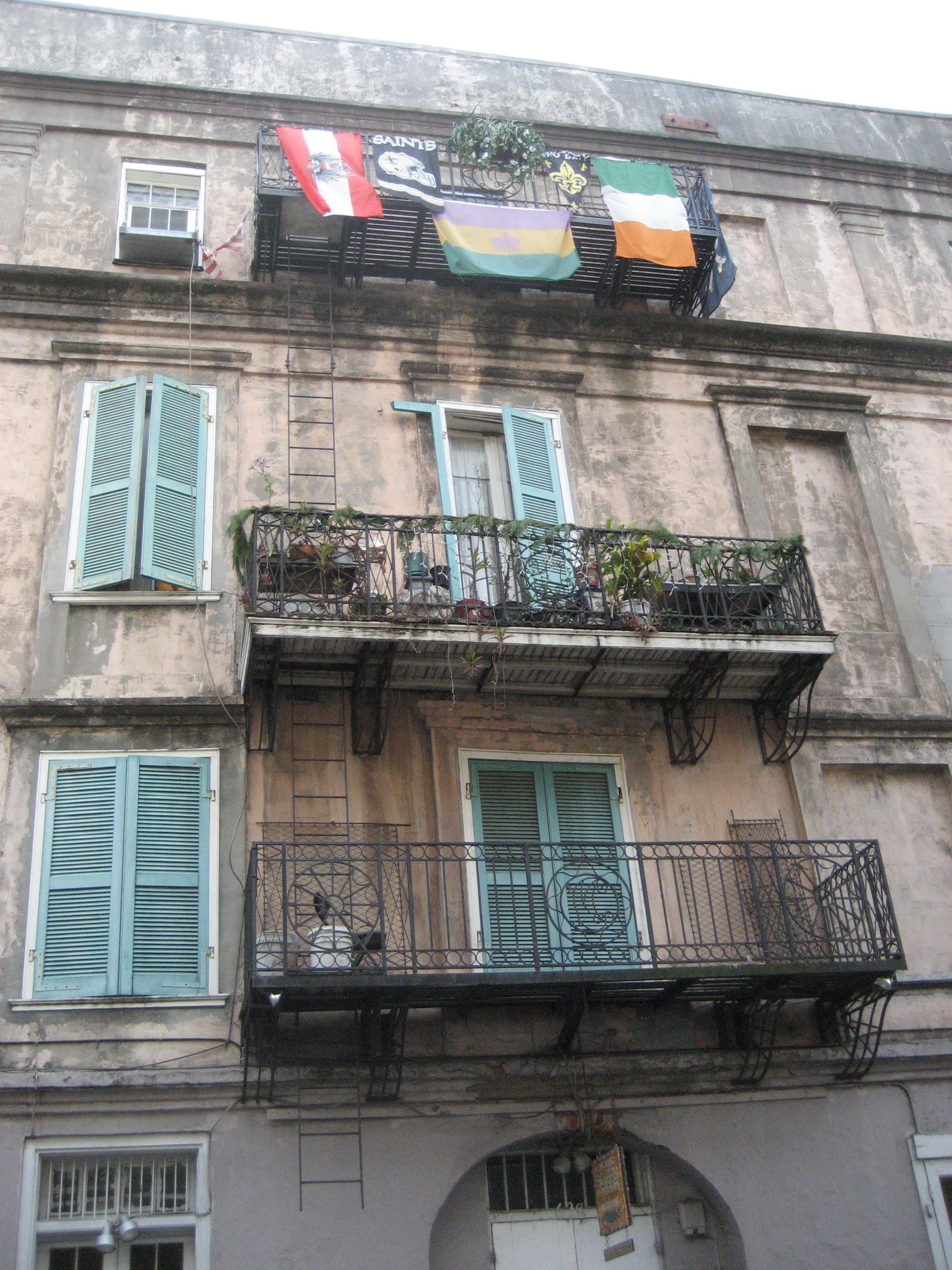 New Orleans: "The Sky Scraper" at St. Peter & Royal streets in the French Quarter